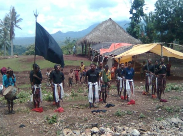 Funeral of the house keeper of uma lulik Borulaisoba in Ahabu'u